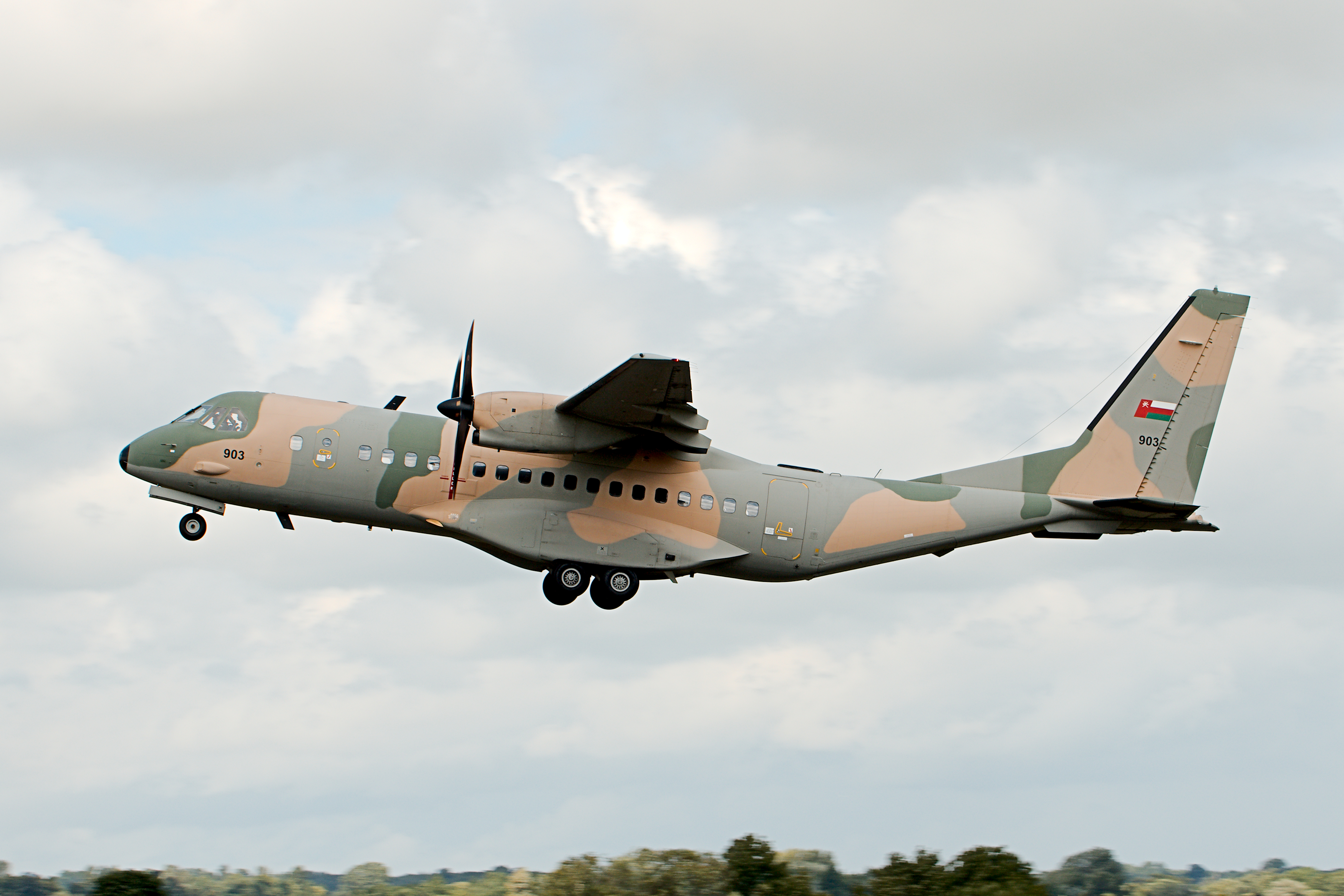 A C-295M of the Royal Air Force of Oman at the Royal International Air Tattoo air show